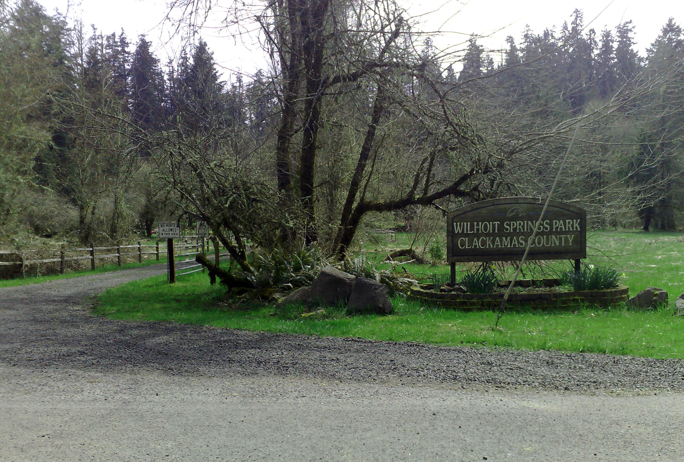 The entrance to Wilhoit Springs County Park, near Molalla in Clackamas County, Oregon.